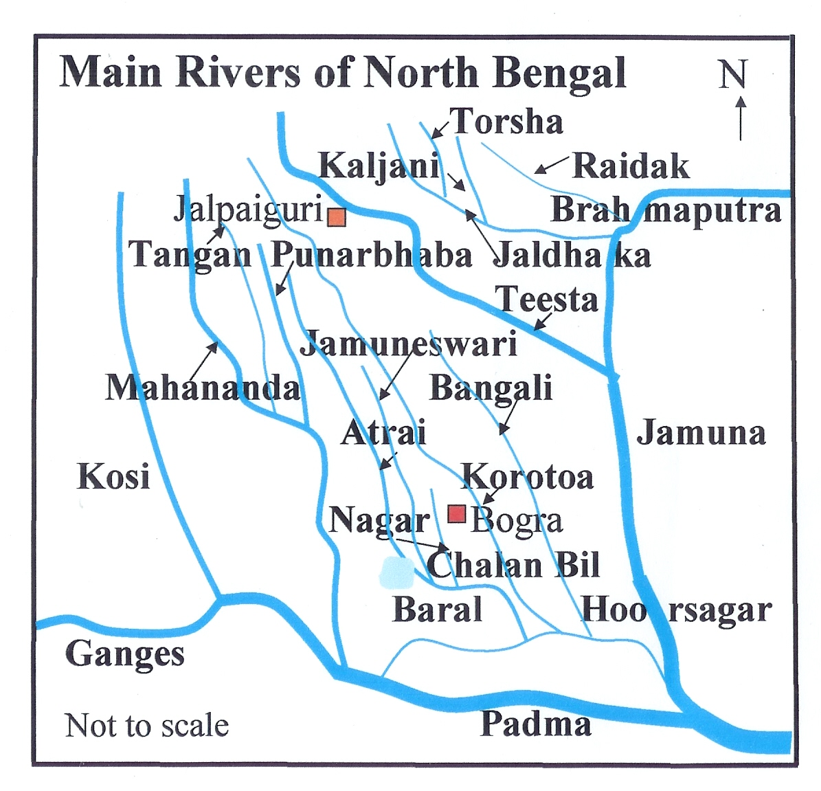 Own map based on the Rivers of Bangladesh, August 1997 edition, produced by Graphosman, 55/1 Purana Paltan, Dhaka – 1000, map of Bengal in History of Ancient Bengal, by Dr. R.C. Majumdar,First published 1971, Reprint 2005, p. 4, Tulshi Prakashani, 9/7b Ramanath Mazumdar Street, Kolkata, ISBN 81-89118-01-3, map of Paschim Banger Nad-Nadi on p. 64 in Bharater Nadi (Rivers of India), 2002, by Dilip Kumar Bandopadhyay, , Bharati Book Stall, 6B Ramanath Mazumdar Street, Kolkata. The map shows the main rivers in North Bengal and adjoining areas. However, there are numerous tributaries and distributaries, which connect the main rivers, and allow the main rivers to change course. Therefore, the river-system pattern undergoes continuous changes. Such changes have not been reflected in the map. Moreover, many of the rivers have local names for sections of the course, adding to the complexity of the river system. The map should be considered a broad overview and for more accurate presentation one has to refer to more detailed maps, as the one produced by Graphosman.